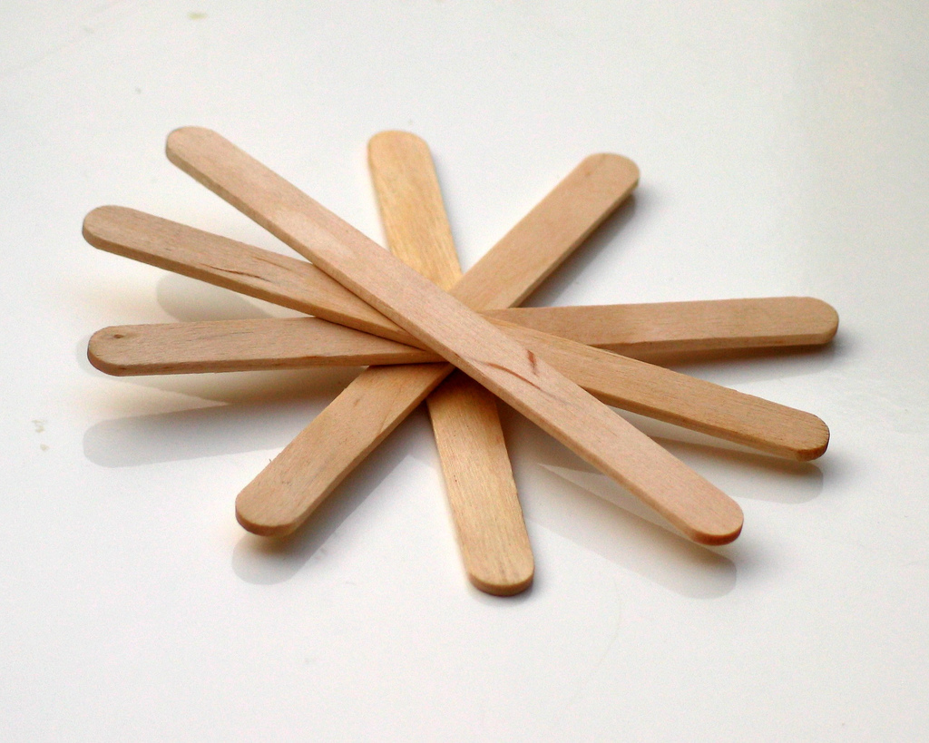 Five ice lolly sticks arranged in a star(ish) shape